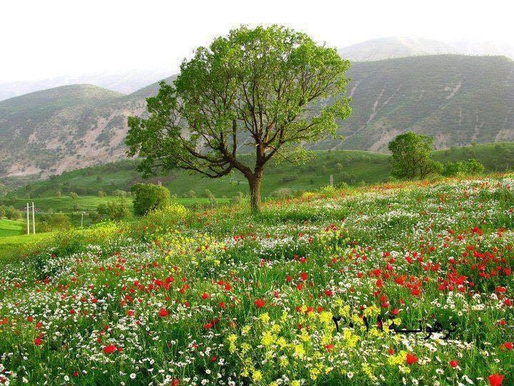 This is an image with the theme "Africa on the Move or Transport" from: Libyan Arab Jamahiriya